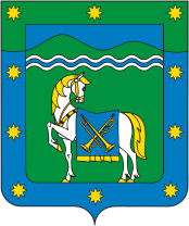 Coat of arms of Kurganinsk rayon, Krasnodar Krai.